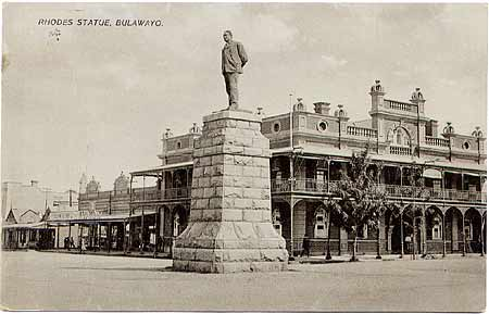 Cecil Rhodes' statue, Bulawayo. Photo of postcard c1925.[1]